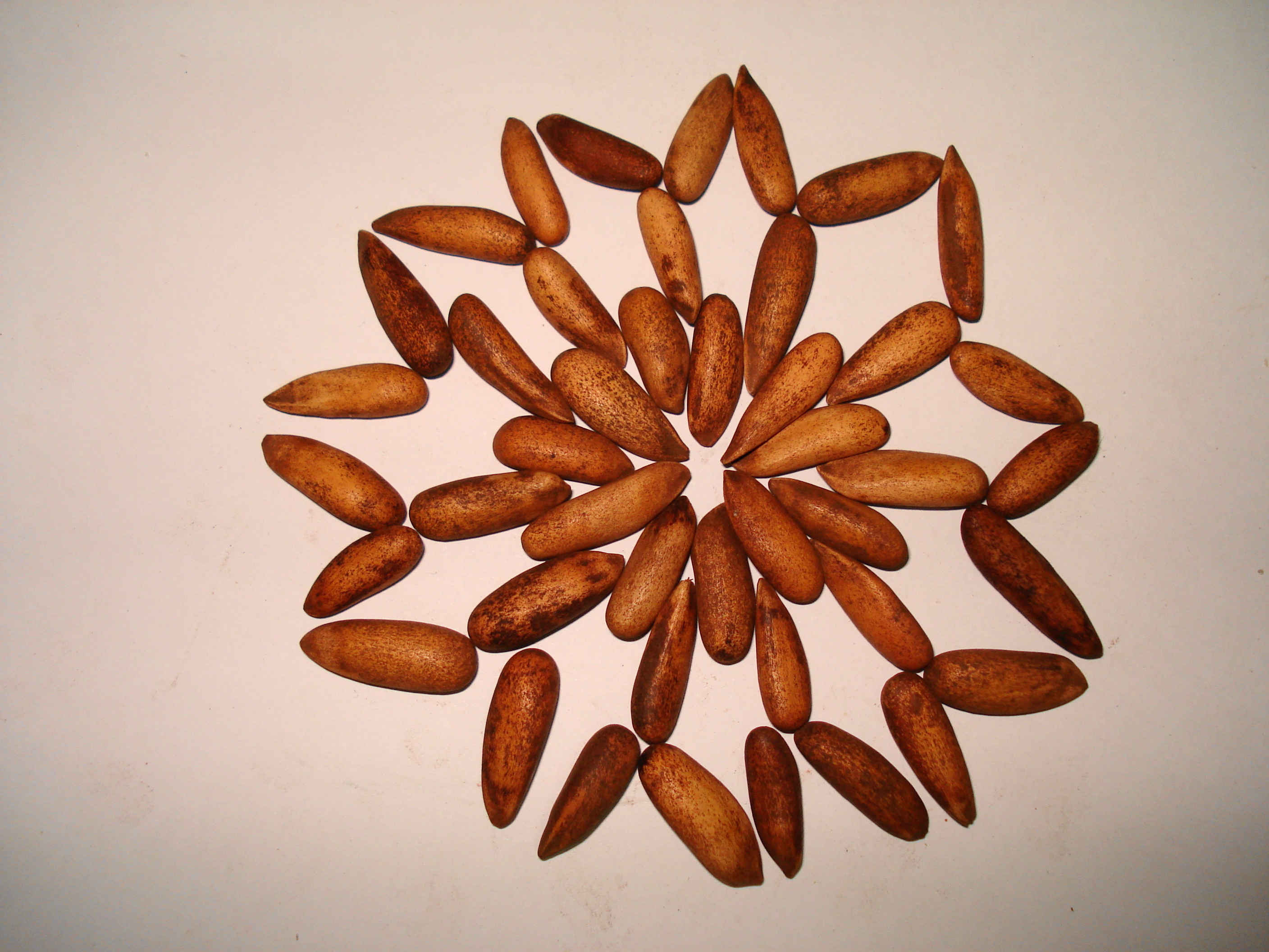 Chilgoza in urdu, used in arabian dishes like kabsa rice, kibbe